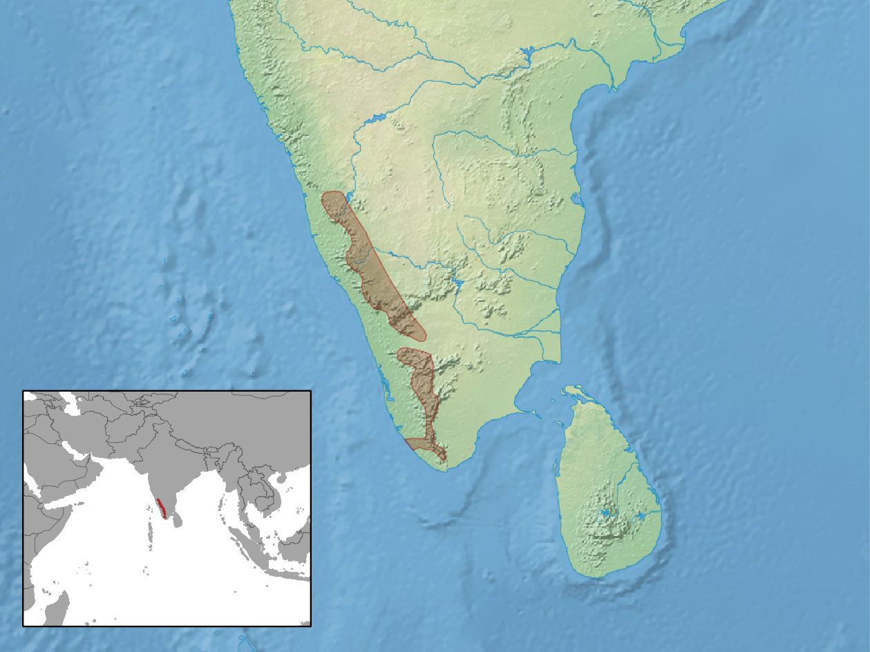 geographic distribution of Platacanthomys lasiurus